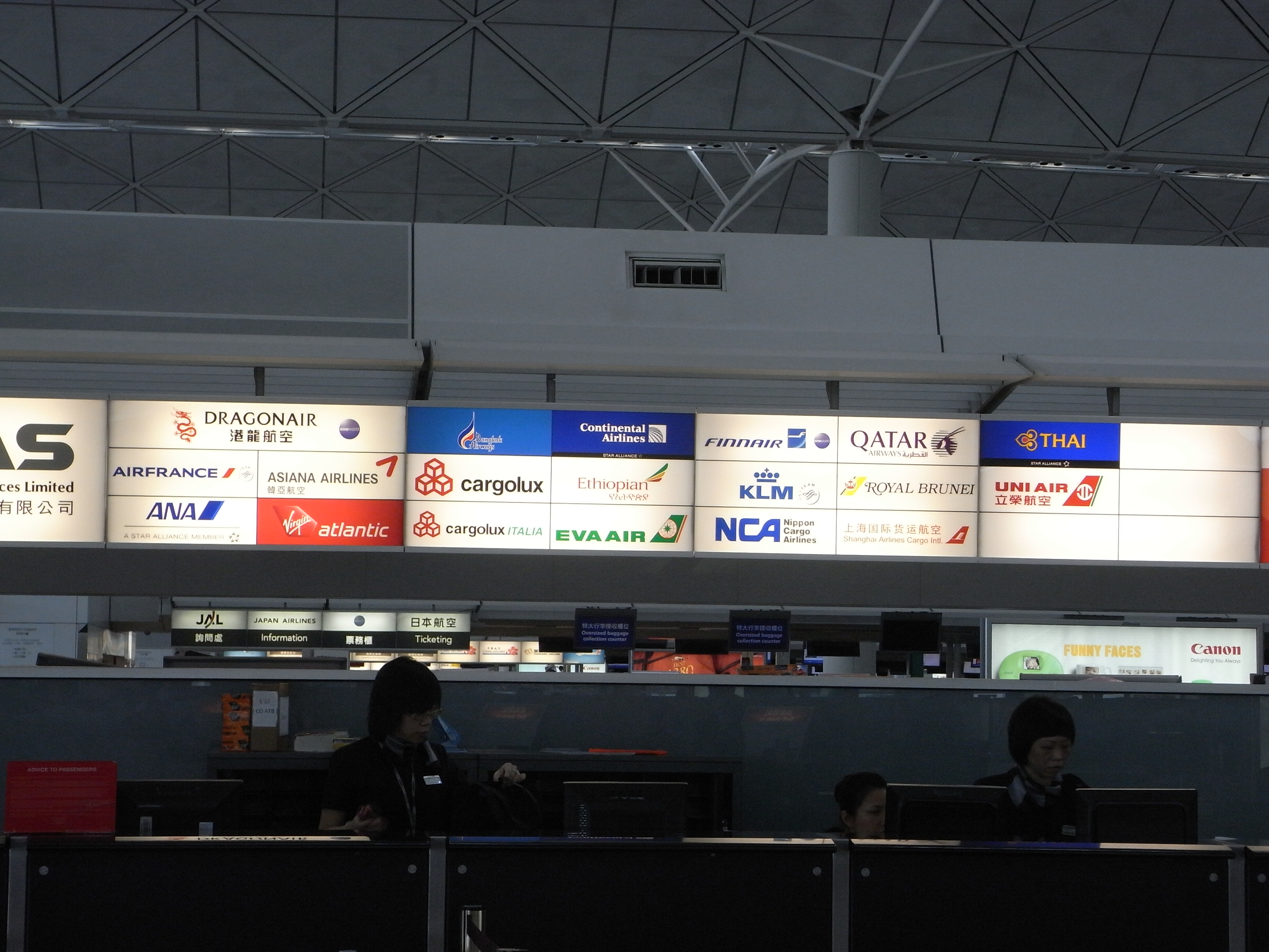 香港